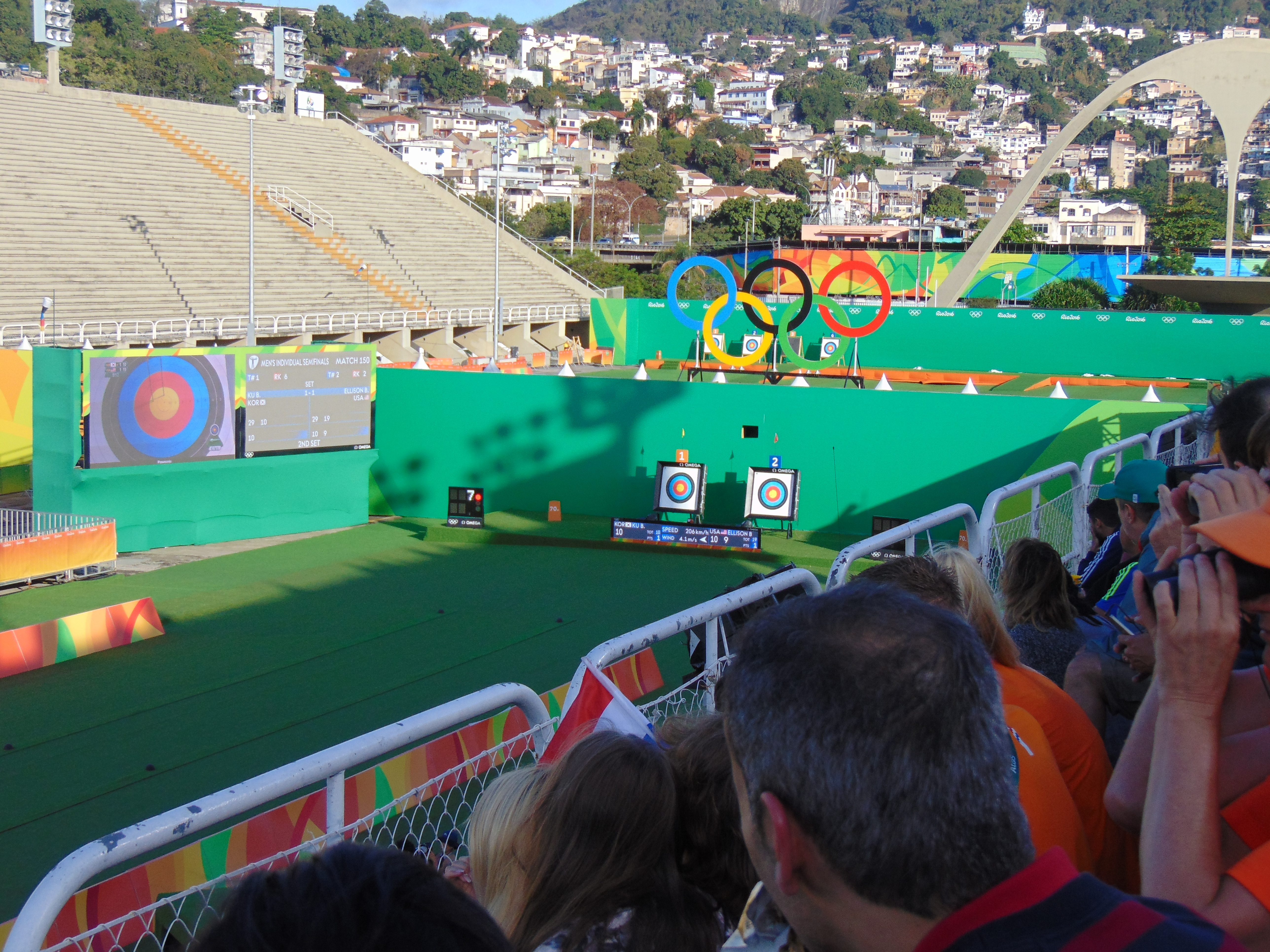 Rio 2016 - Men's archery finals